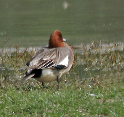 Eurasian Wigeon Anas penelope at Sultanpur National Park in Gurgaon District of Haryana, India.